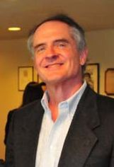 Jared Taylor